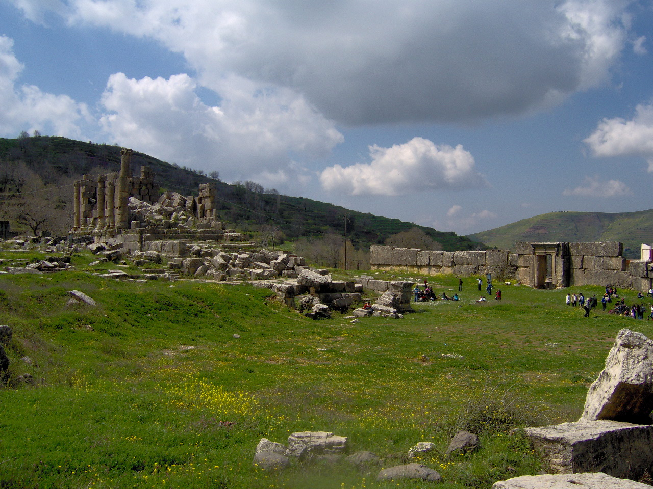 The Roman temple of Baotocecea (today Hosn Sulayman, Syria)